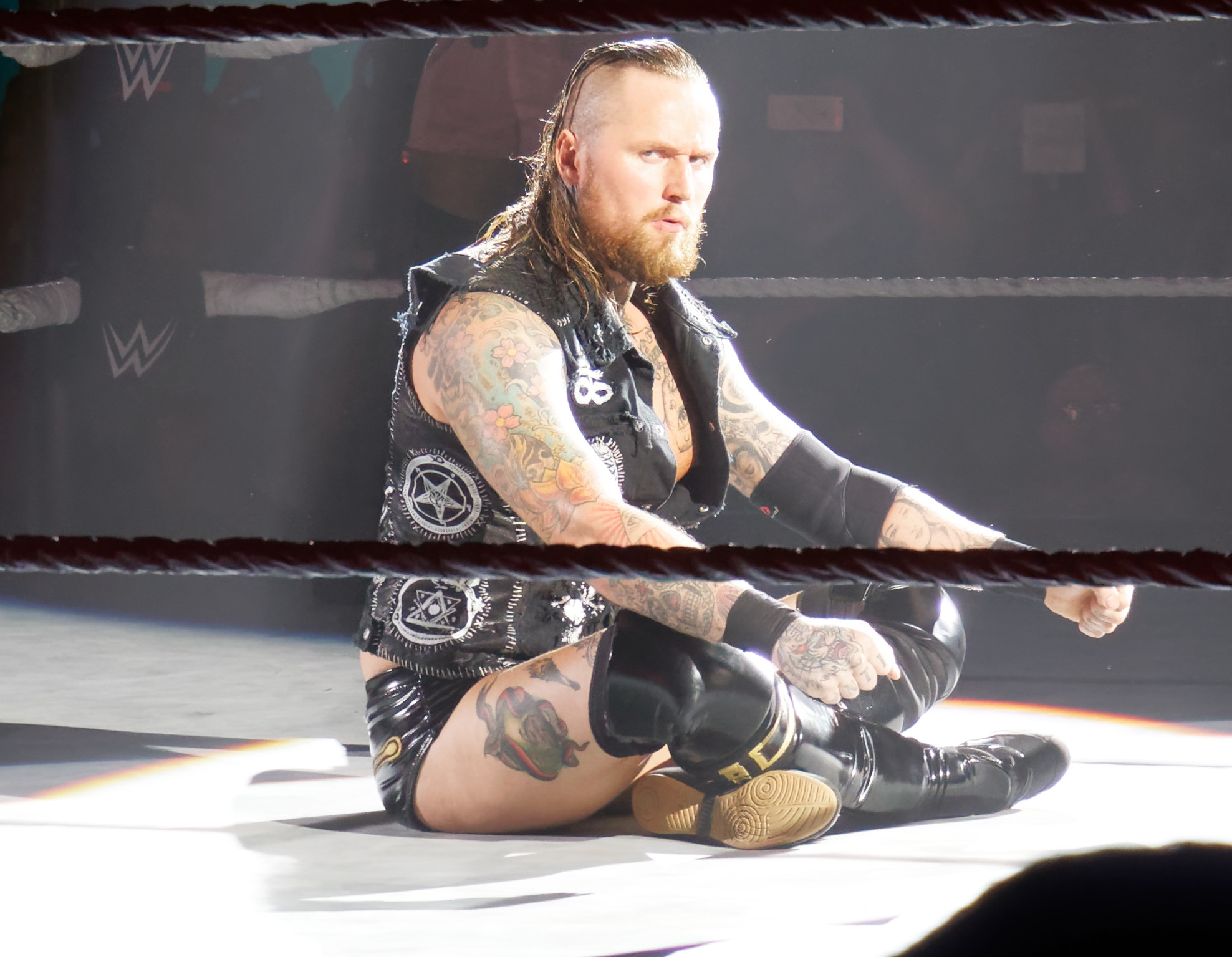 Aleister Black at a WWE event in 2017